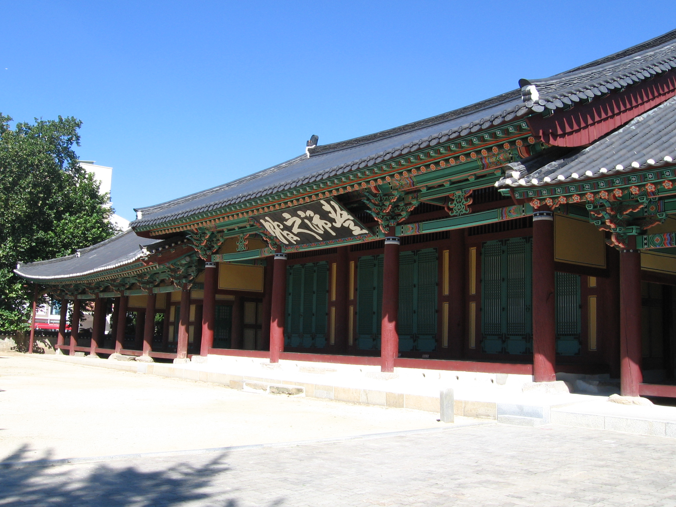 The Gaeksa was once part of the provincial government office complex. Taken by myself (Johannes Barre, iGEL (talk)) on 2005 September 07